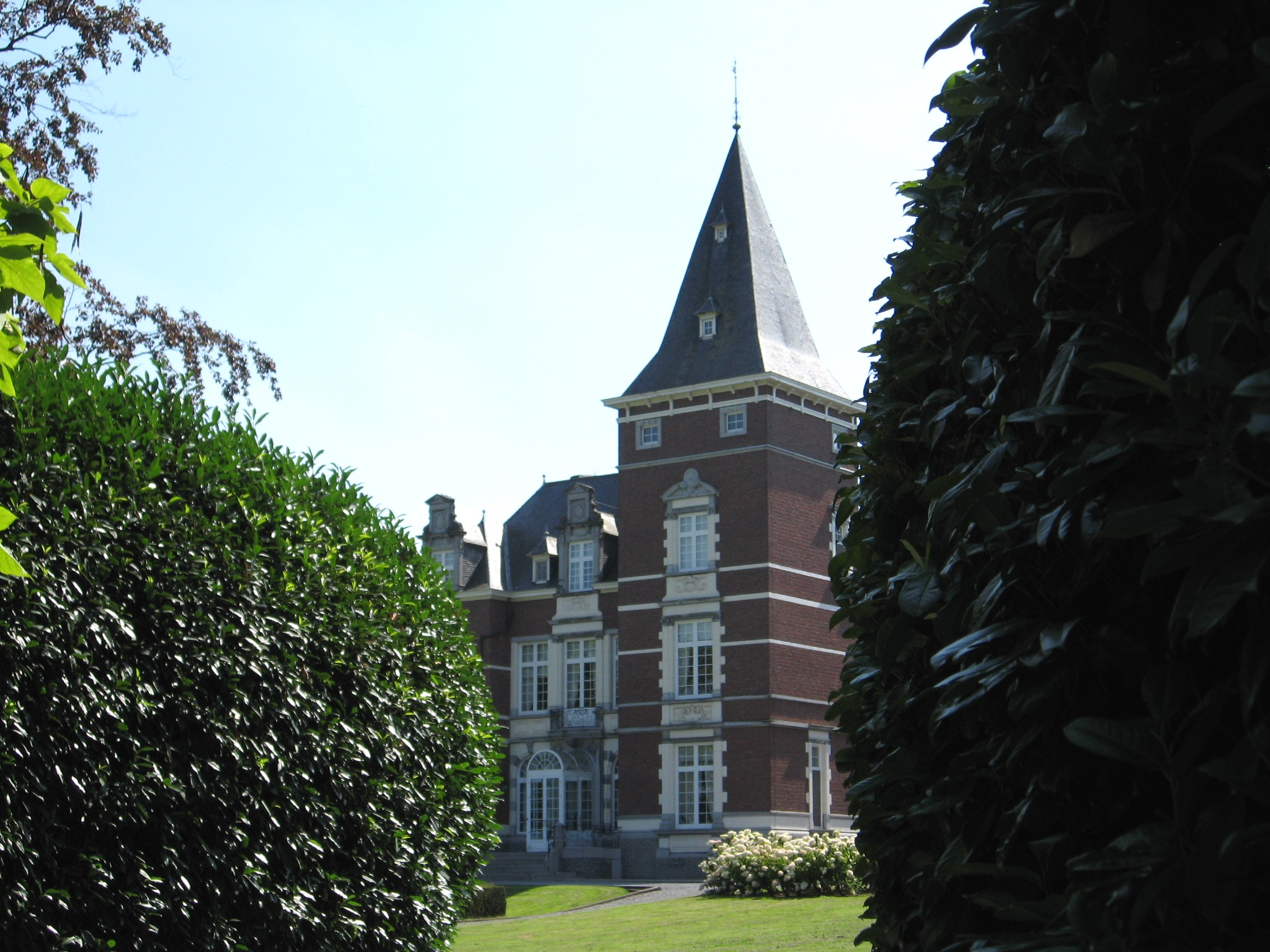 Castle De Klee (1907) in Kuttekoven, Borgloon, Limburg, Belgium